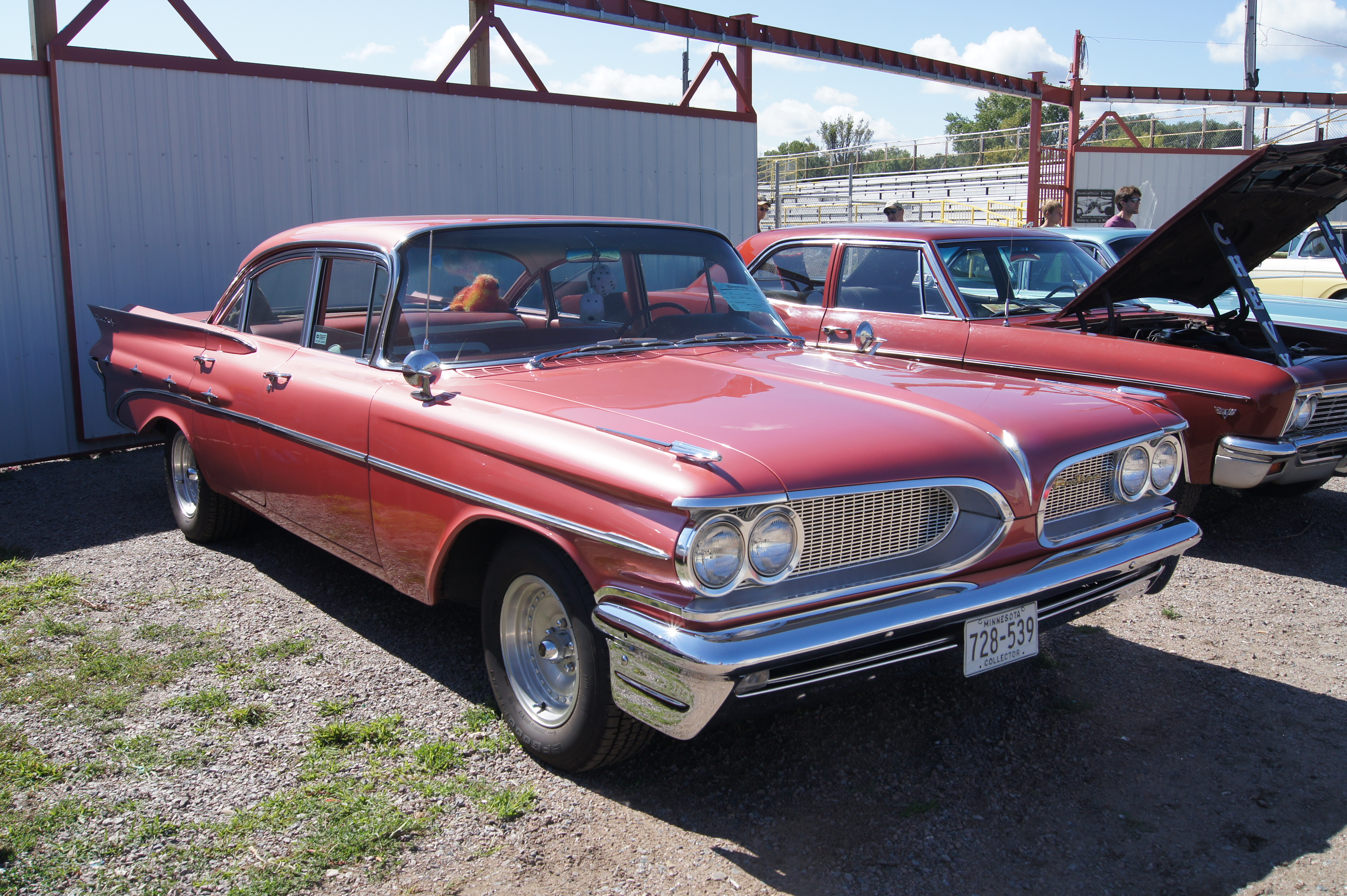 St. Cloud Antique Auto Club Pantowner's 37th Annual Car Show & Swap Meet